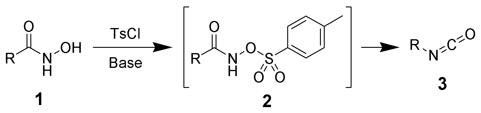 Description: Reaction scheme of the Lossen rearrangement. Author, date of creation: selfmade by ~K, 11 February 2006. Source: - Copyright: Public domain. (PD) Comments: high-resolution b/w PNG; ChemDraw / The GIMP.